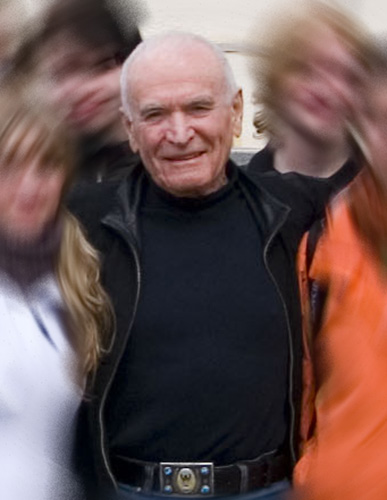 Jack Terry in the concentration camp Flossenbürg, Germany.